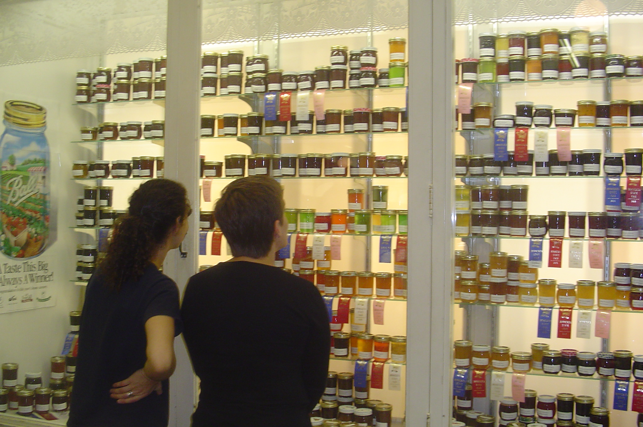 Fruit preserves and honeys, Minnesota State Fair, Falcon Heights, Minnesota